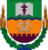 Coat of arms of Makariv Raion (Kyiv Oblast Ukraine)